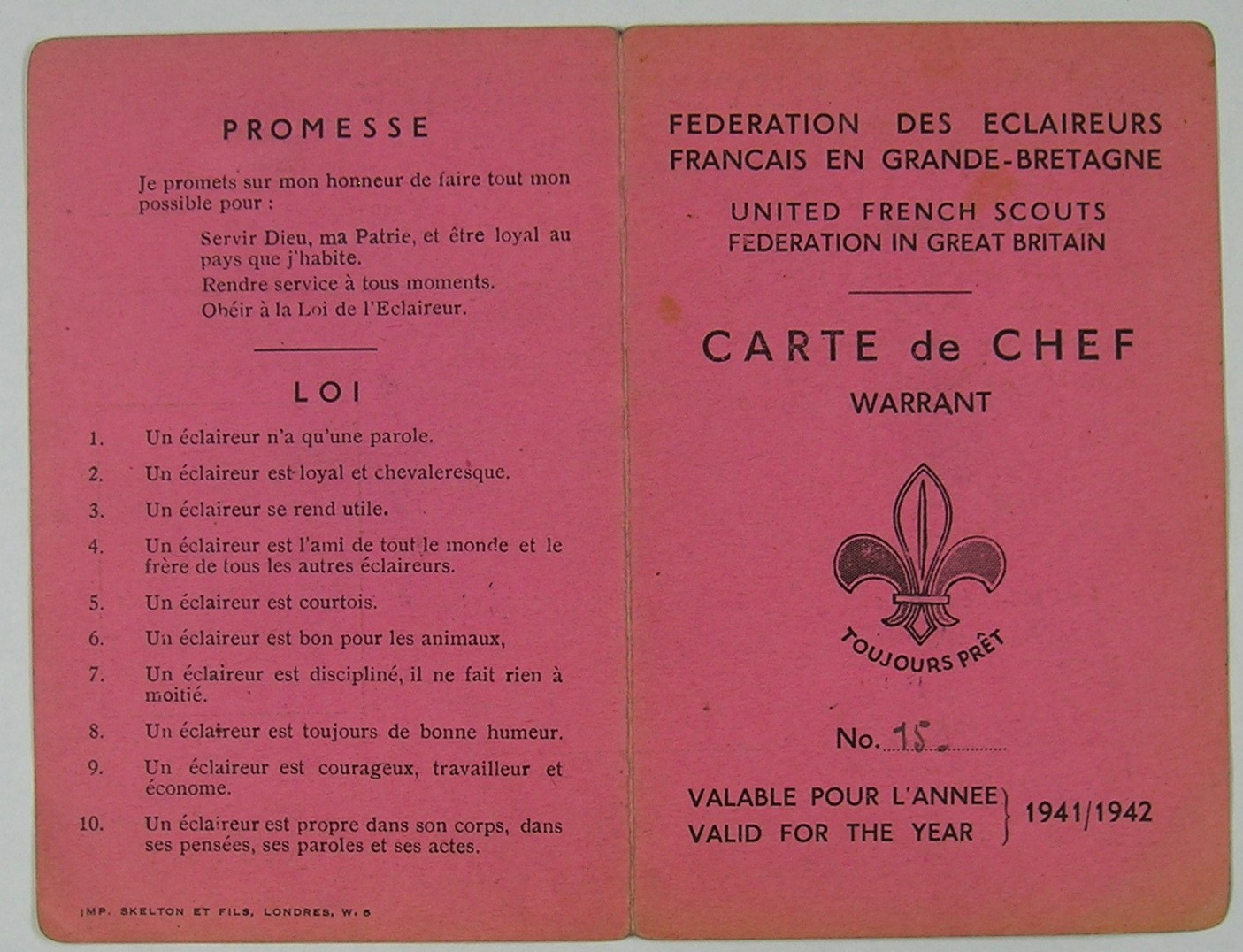 Scoutleader card of the Éclaireurs français en Grande-Bretagne (« French scouts in Great Britain »), the scout movement of the Free French, for 1941-1942.